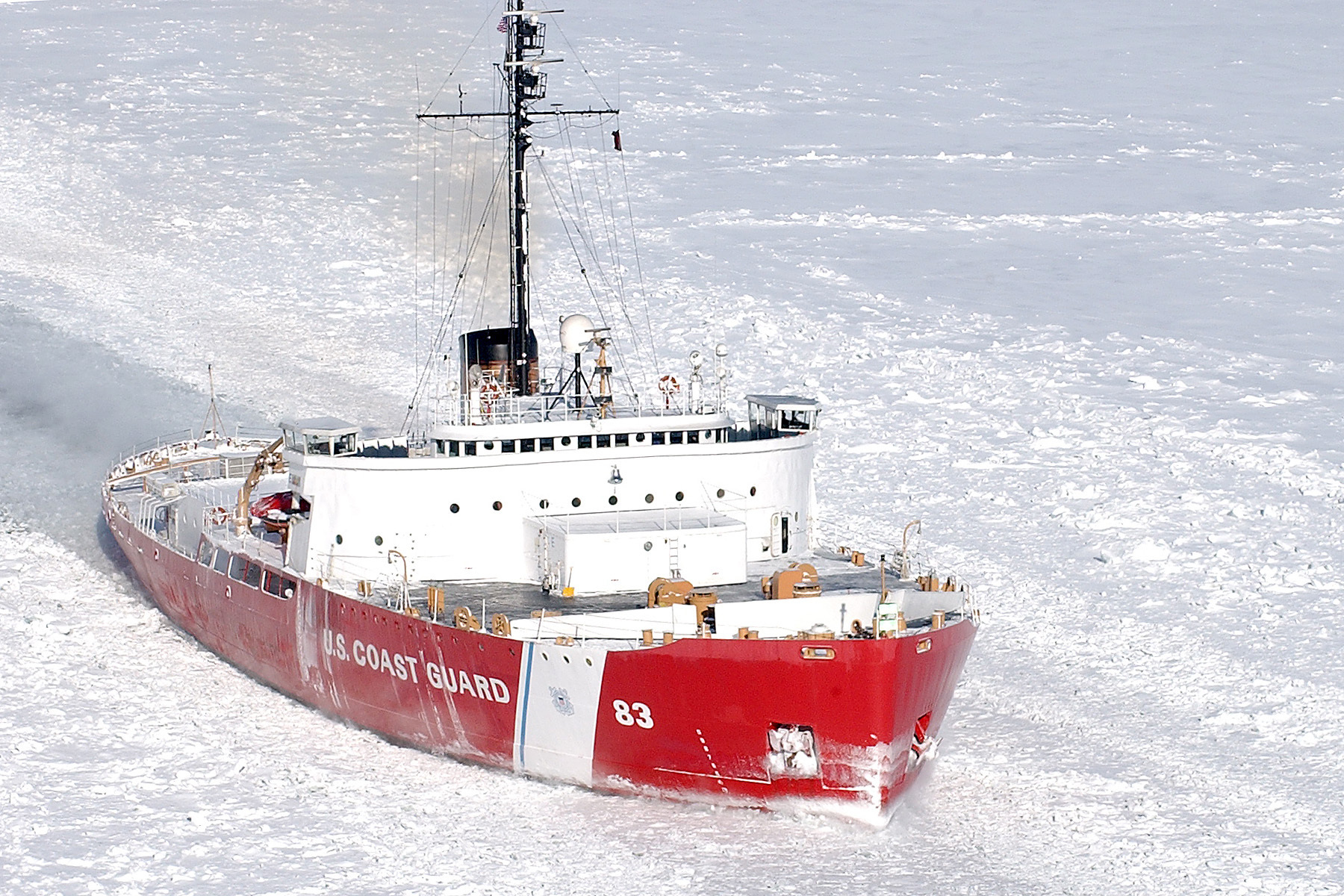 Sault Ste Marie, Mich. (Jan. 23, 2004) - The Coast Guard Cutter Mackinaw clears a shipping track through the ice of the St. Marys River Jan. 23, 2004. USCG photo by PAC Jeff Hall.